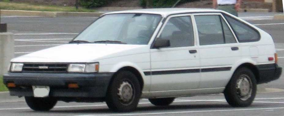 1986-1987 Toyota Corolla photographed in Fort Washington, Maryland, USA.